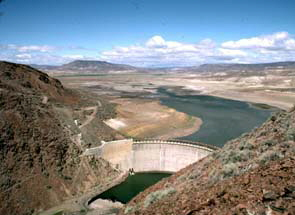 The Warm Springs Dam (and reservoir) in eastern Oregon.